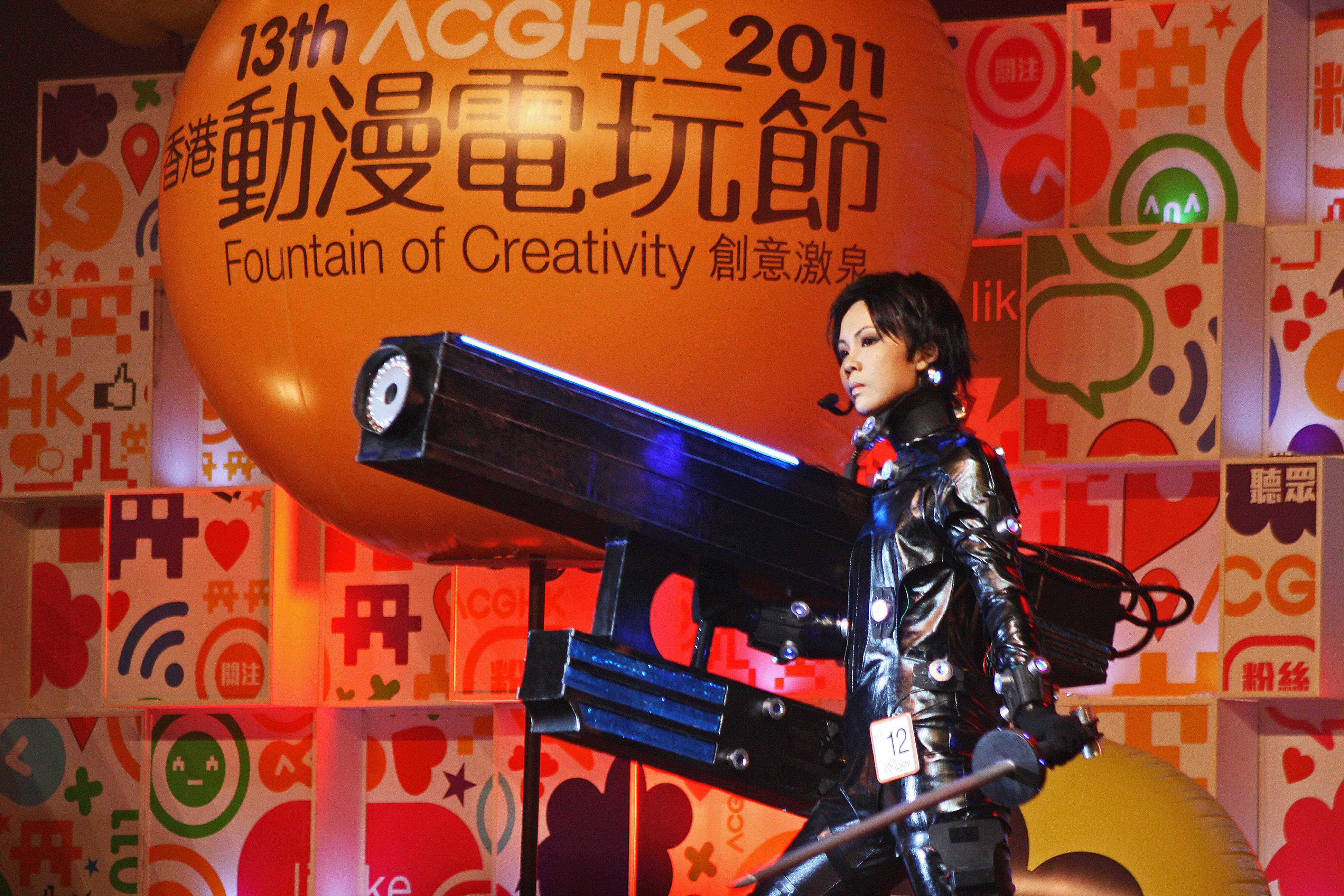 A cosplayer at the ACG Cosplay Contest at the 2011 Animation-Comic-Game Hong Kong (ACGHK) dressed as a character from popular manga and anime Gantz. During the competition, the competitors acted out scenes often involving lip-synching, and staged fighting. This person’s skit was so energetic that her wig fell off half-way through.